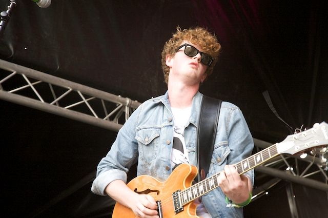 Thomas Holloway of the Arcadian Kicks playing at the Isle of Wight Festival 2010. Platform 1/Widget Productions Stage